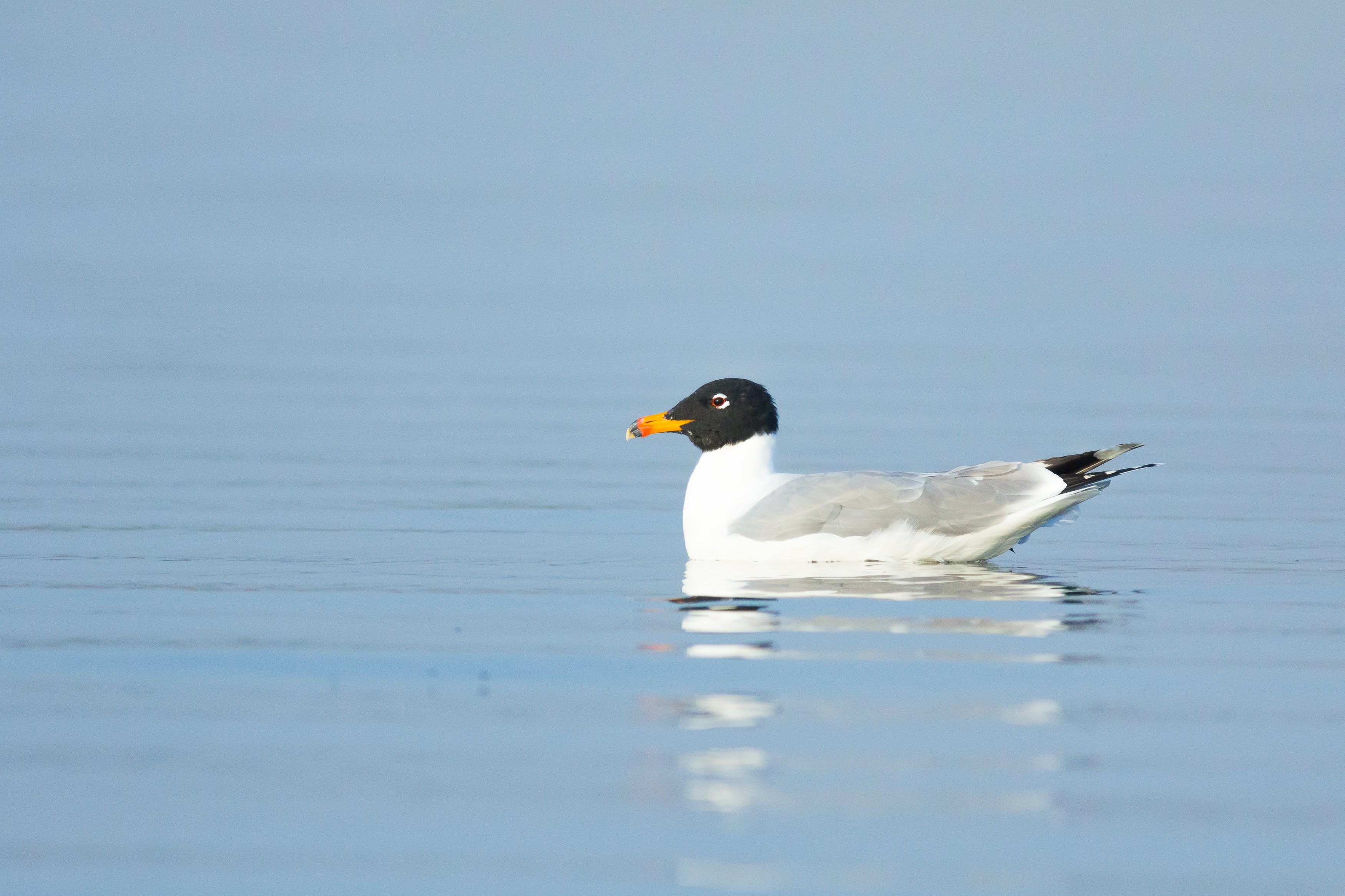 Clicked at Bhigwan, Maharashtra